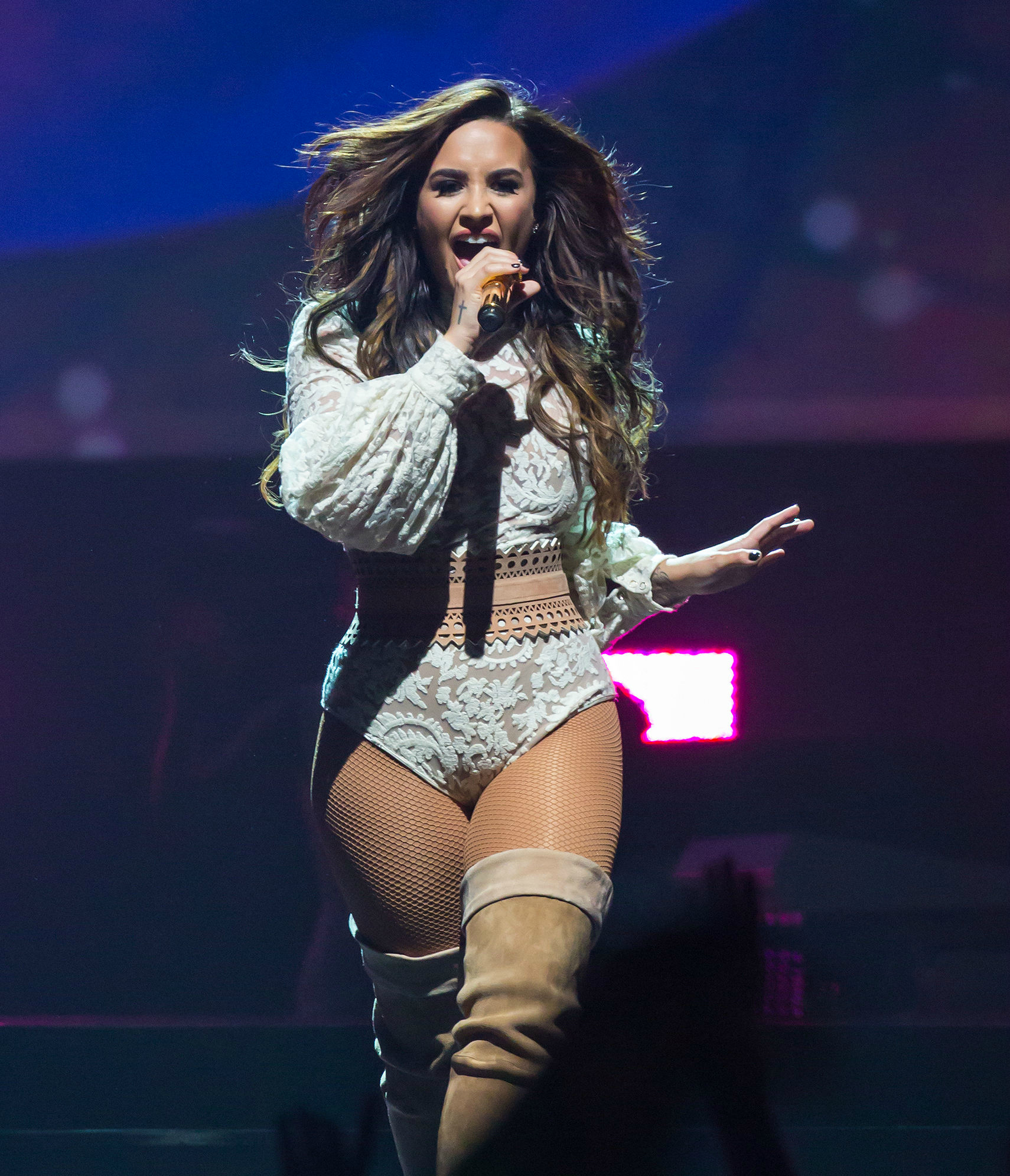 Demi Lovato performing at the AT&T Center in San Antonio, Texas on September 10, 2016.